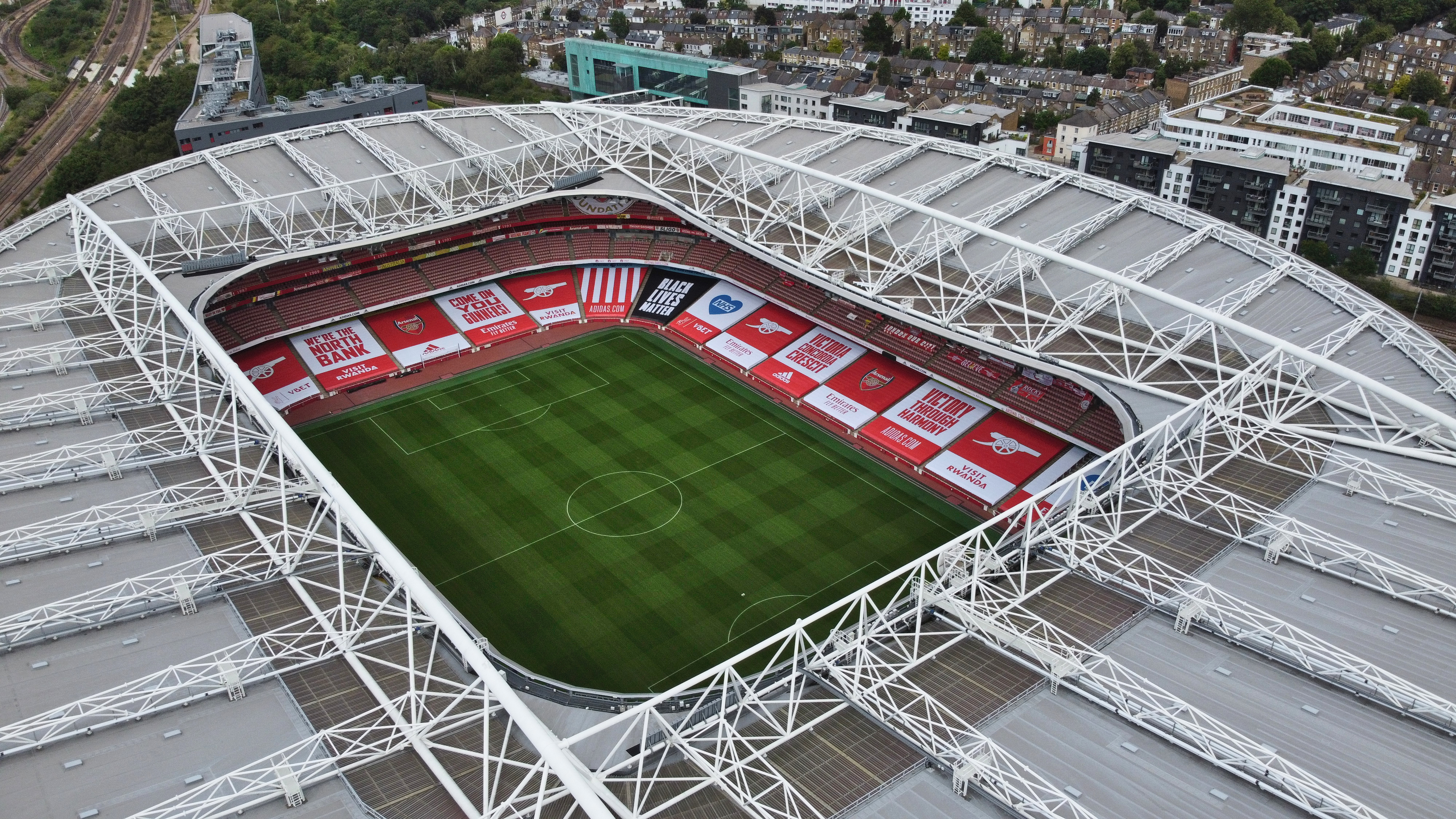 Aerial view of the Emirates Stadium after the 2020 Premier League restart